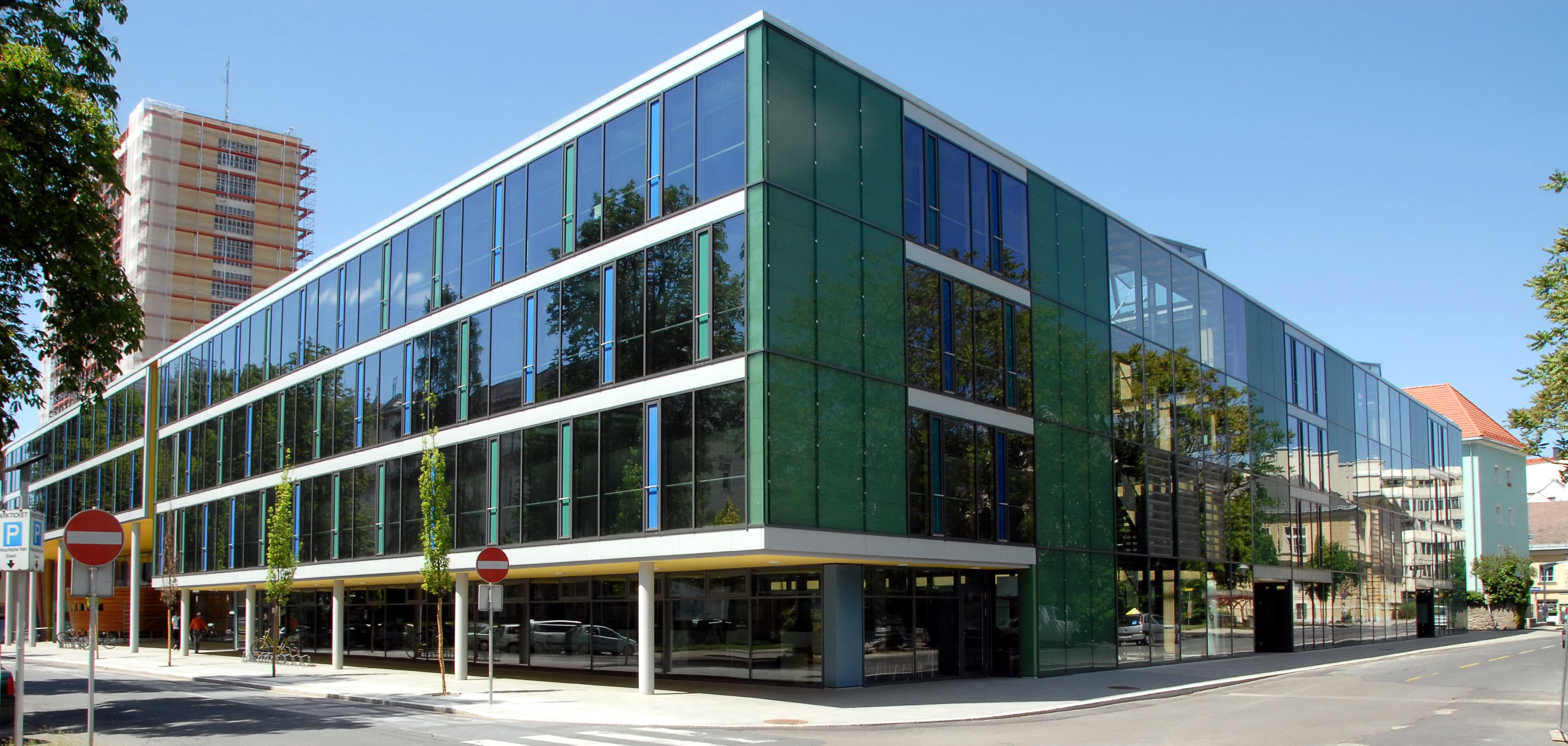 New administration center of Carinthia in Klagenfurt, Carinthia, Austria.